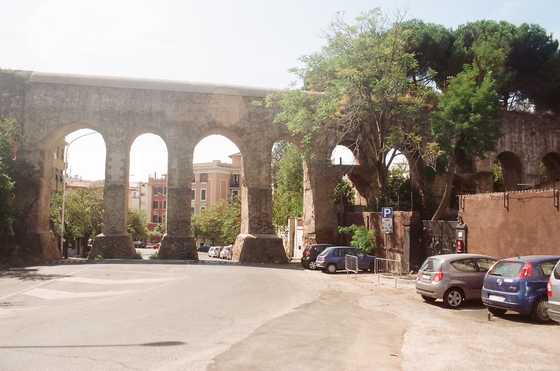 Aqua Felice crossing Via Stazione Tuscolana, view from Via Casilina vecchia